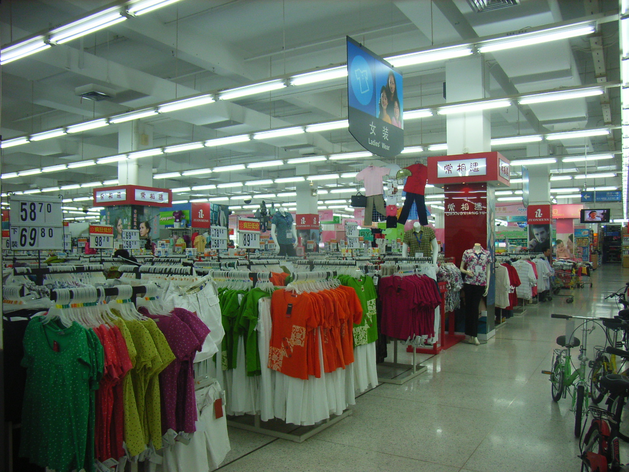 深圳華僑城沃爾瑪百貨商場